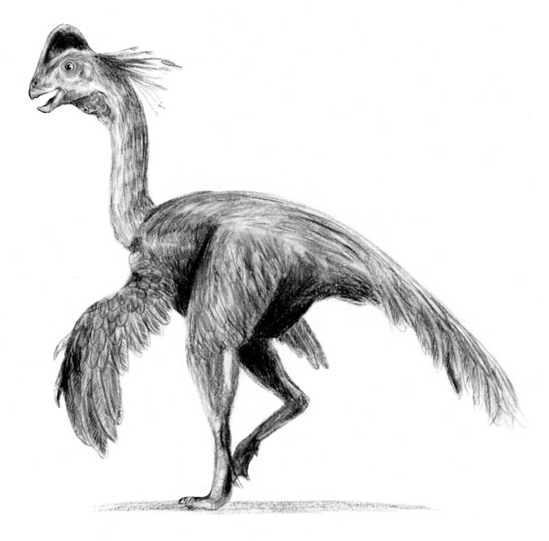 Life restoration of Chirostenotes, pencil drawing, based mainly on Scott Hartmann's skeletal of Anzu[1], with modifications after Greg Funston's skeletal of Chirostenotes.[2]